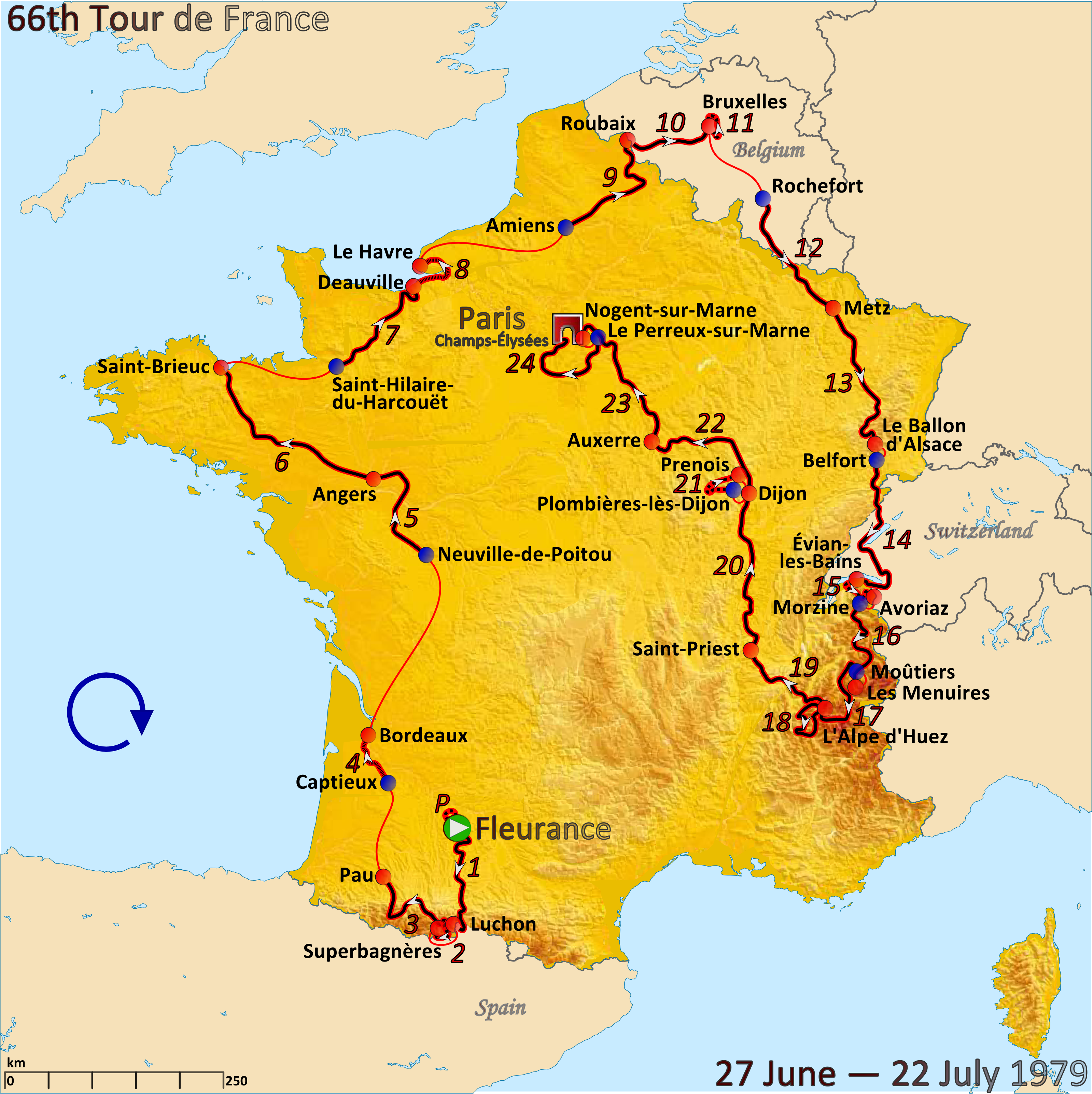 Map of the 1979 Tour de France created in Inkscape using accurate stage maps from touratlas.nl.